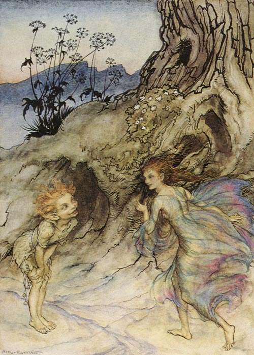 A painting of Puck, character of Shakespeare's Midsummer Night, by Arthur Rackham (1867 – 1939)